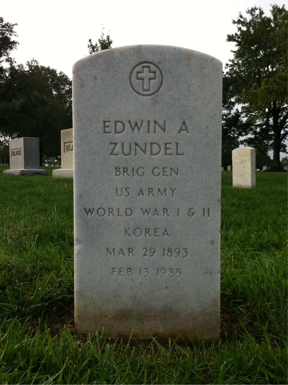 Grave of Edwin A. Zundel at Arlington National Cemetery